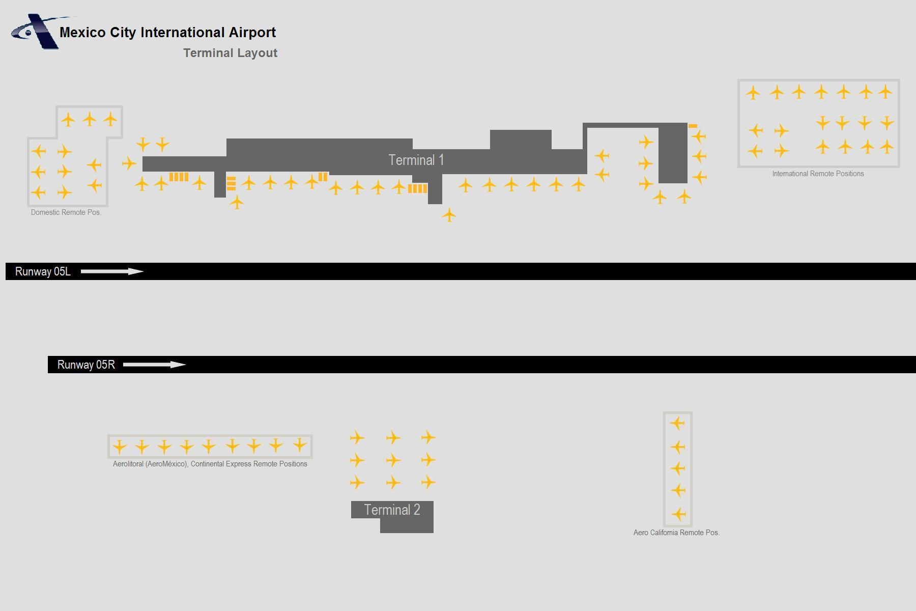 Diagram of the Commercial Area of MEX before construction of new T2. Not scale.